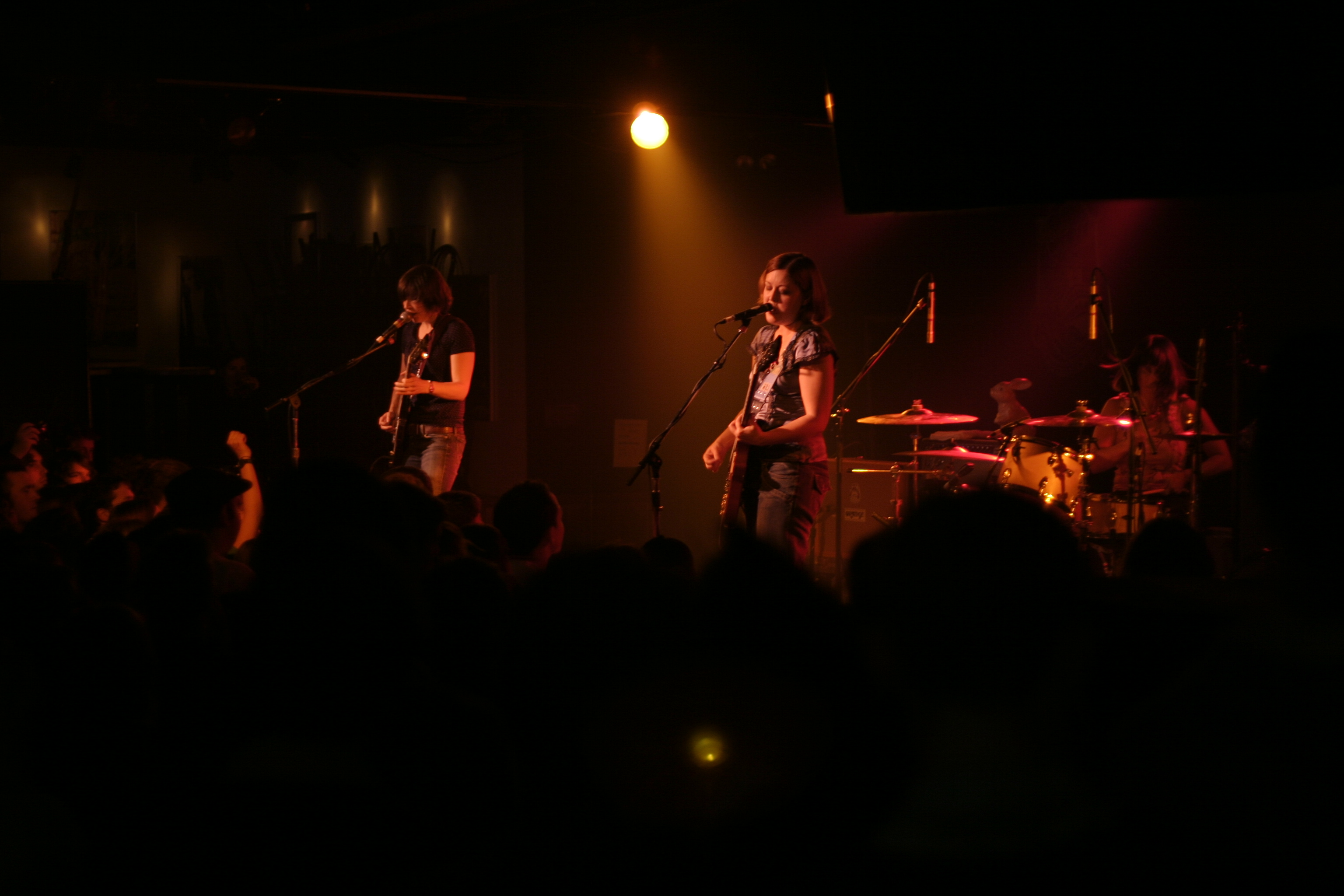 The band Sleater-Kinney performing at Mississippi Nights on October 8, 2005.